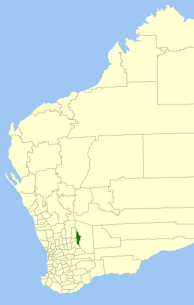 Description=Location of the Local Government Area in Western Australia